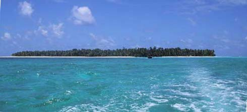 A view of Satawal Island from the sea, Yap State, Federated States of Micronesia